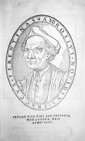 Ambrogio Fracco (also known as Novidius), Italian poet and humanist, woodcut from a page of one of his books, 1547.